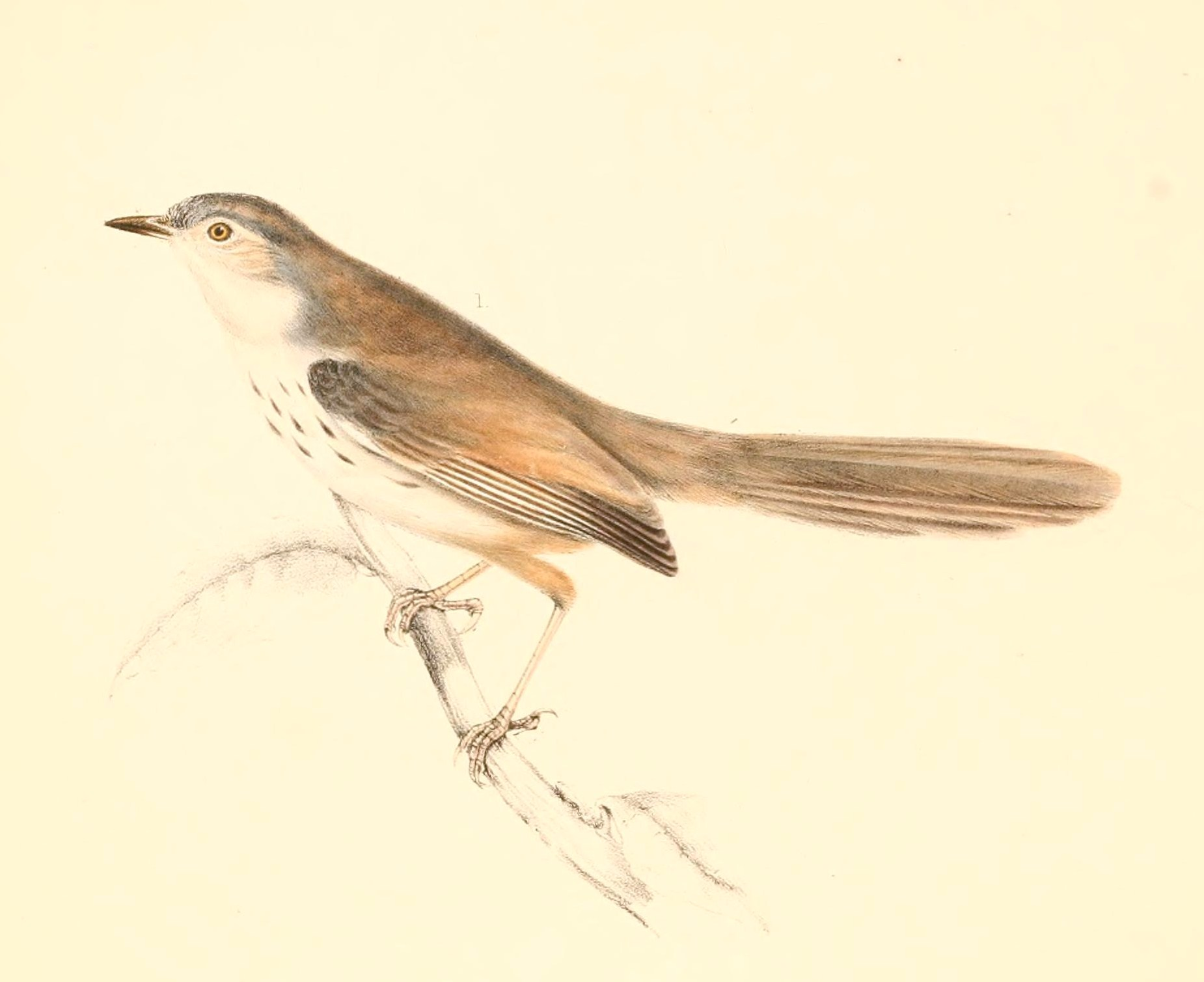 « Drymoica substriata » = Phragmacia substriata (Namaqua Warbler) - female